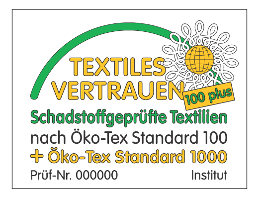 Label of the Oeko-Tex Standard 100plus till 2009